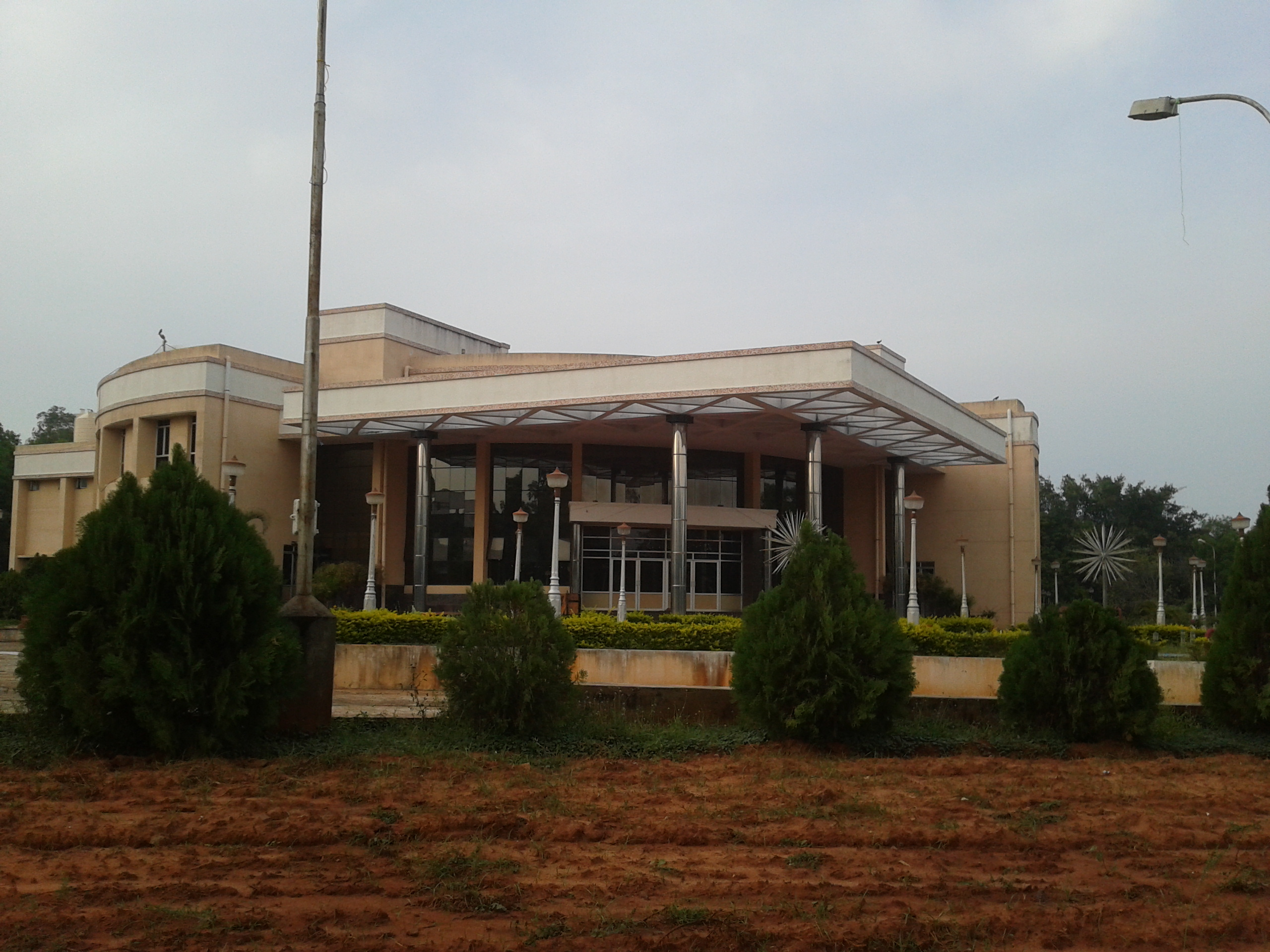 The Auditorium